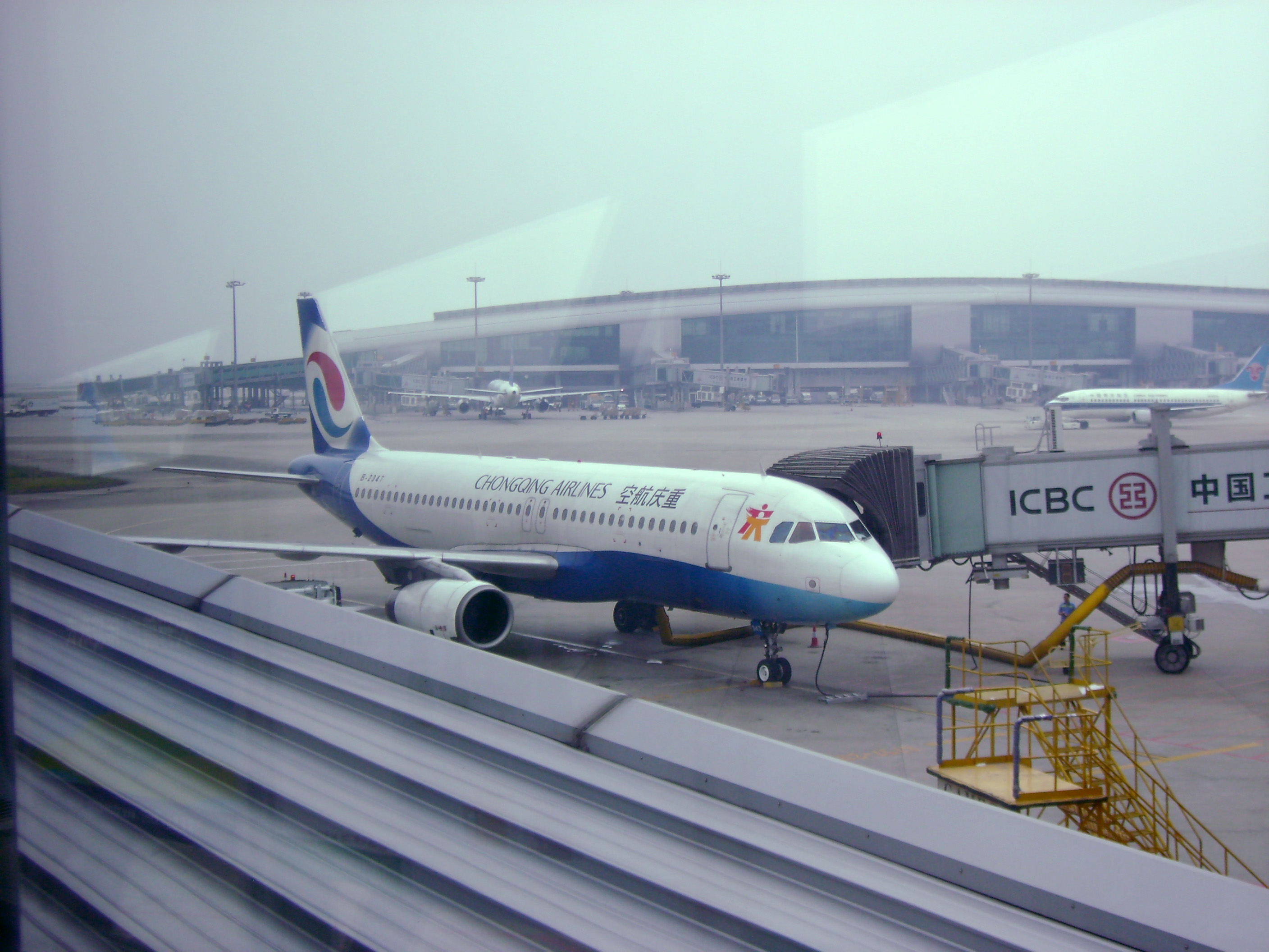 Chongqing Airlines airplane, taken at Guangzhou Baiyun International Airport on 21 January 2010